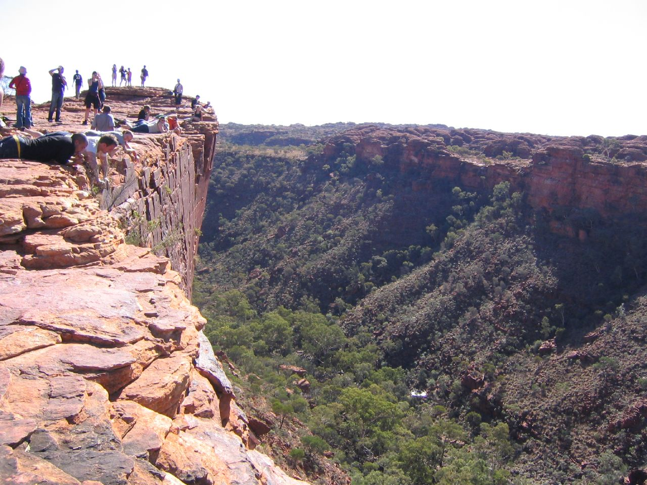 Kings canyon (Australie)